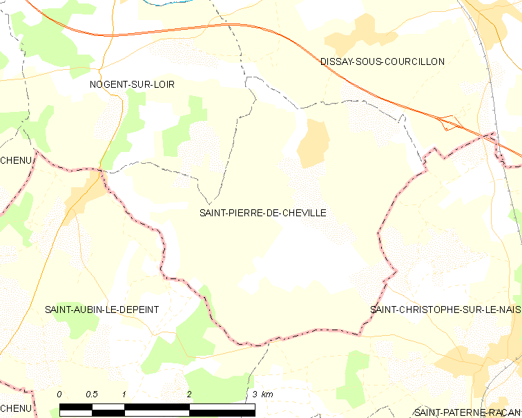 Map of French municipality